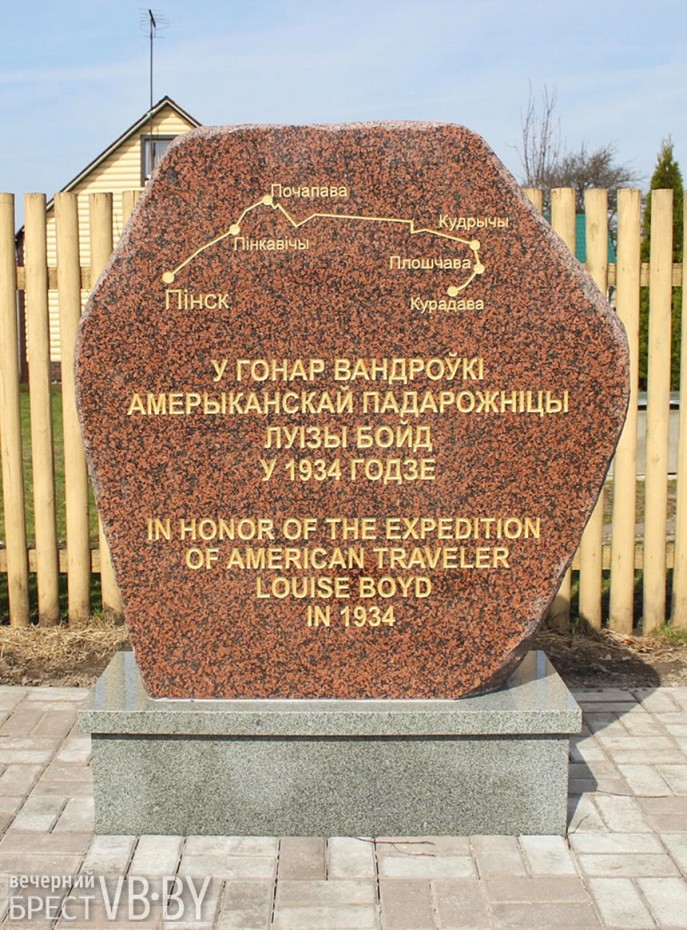 pamyatny znack